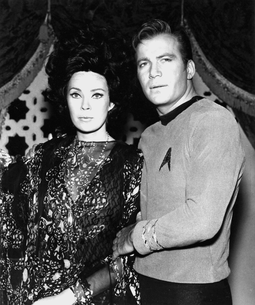 Photo of William Shatner as Captain Kirk and Antoinette Bower as Sylvia from the second season of Star Trek. This episode is "Catspaw"